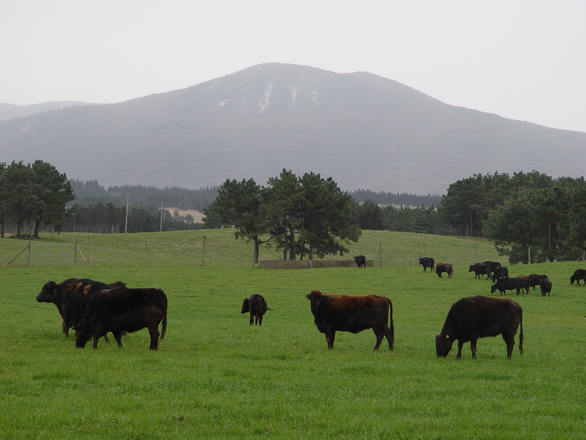 Jeju black cattle grazing